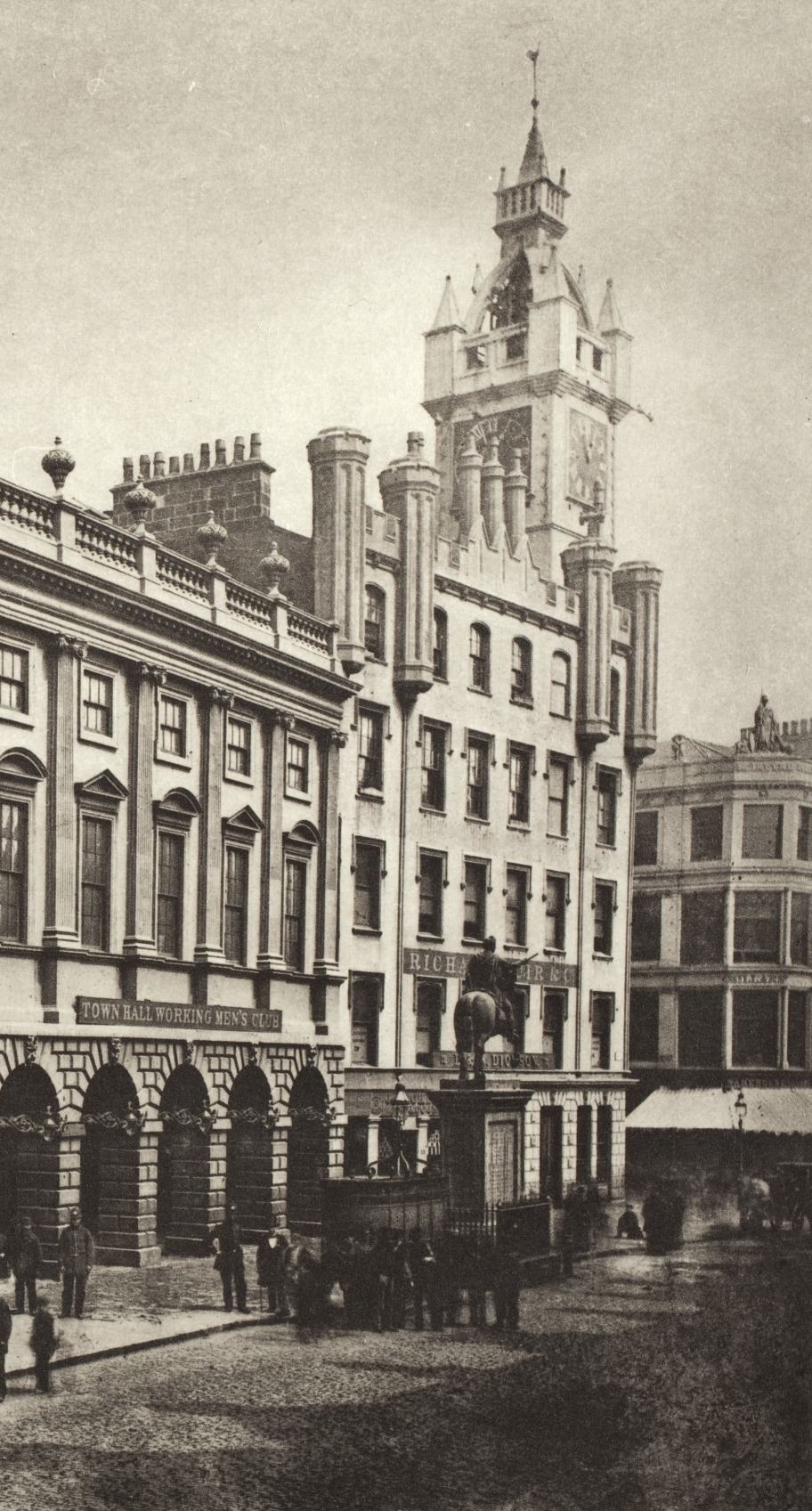 Scotland, 1868, printed 1900 Photographs Photogravure The Marjorie and Leonard Vernon Collection, gift of The Annenberg Foundation, acquired from Carol Vernon and Robert Turbin (M.2008.40.98.19) Photography